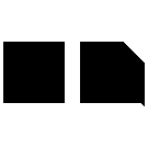 Clipped square tangram parado by sam Loyd